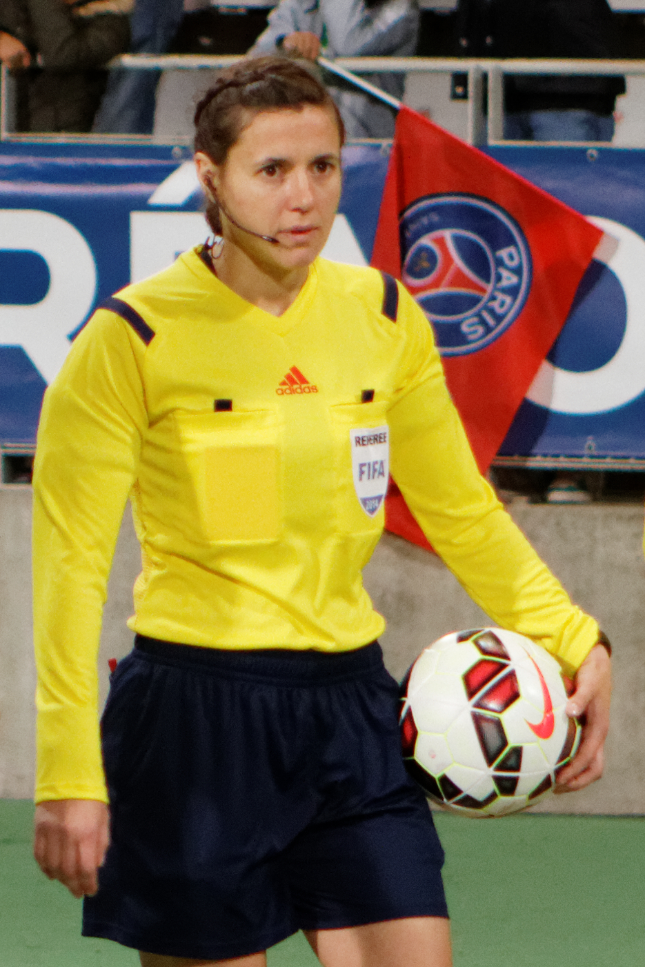 UEFA Women's Champions League, PSG - Lyon, 8 November 2014